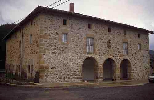 Etxe Aundi, the ancestral home of the House of Lazarraga (Oñati, Gipuzkoa)